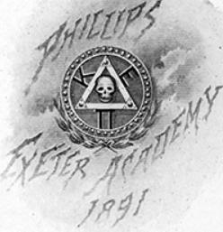 Аҧсшәа: Phillip's Exeter Academy's KEP badge, Skull and Wreath